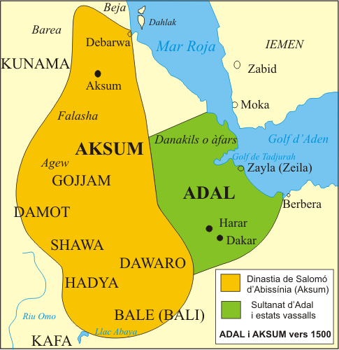 Adal Sultanate and Aksum circa 1500